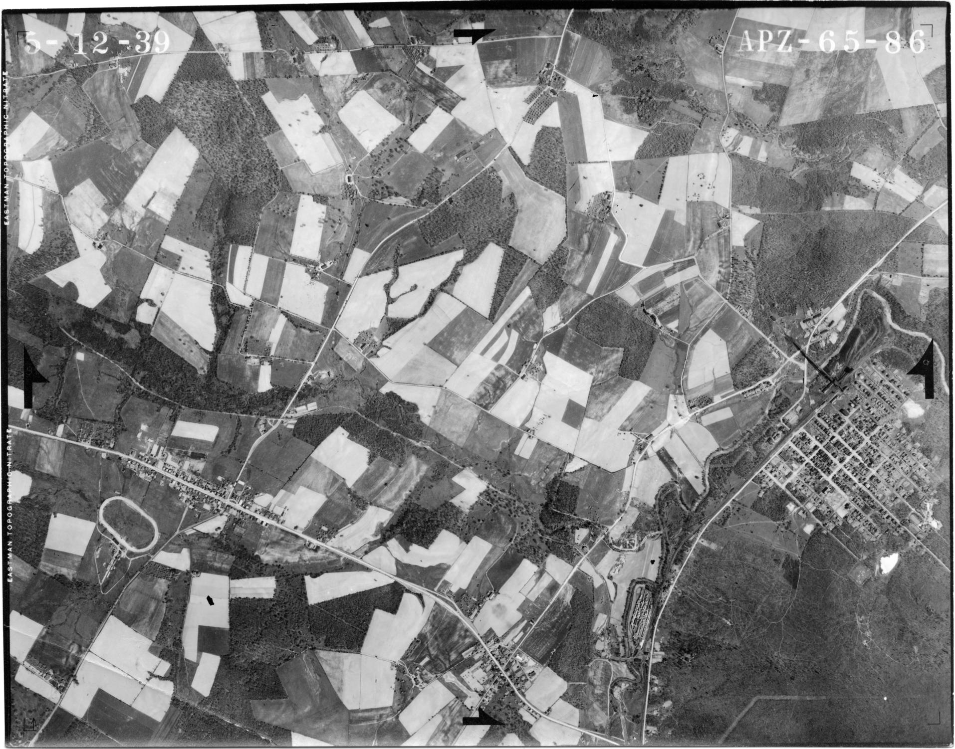 Aerial photograph of Boswell, Jennerstown and part of Jenner Township, Pennsylvania, taken May 12, 1939, by the United States Department of Agriculture, Agricultural Adjustment Administration, Northeast Edition